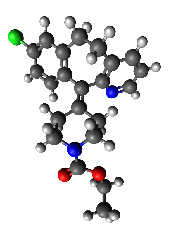 Loratadine 3d model, created using